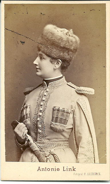 Hungarian mezzo-soprano Antonie Link (1855-1931) as Wladimir Dimitrowitsch Samoiloff (lieutenant of a Circassian cavalry regiment), in "Fatinitza" (1876) by Franz von Suppé.